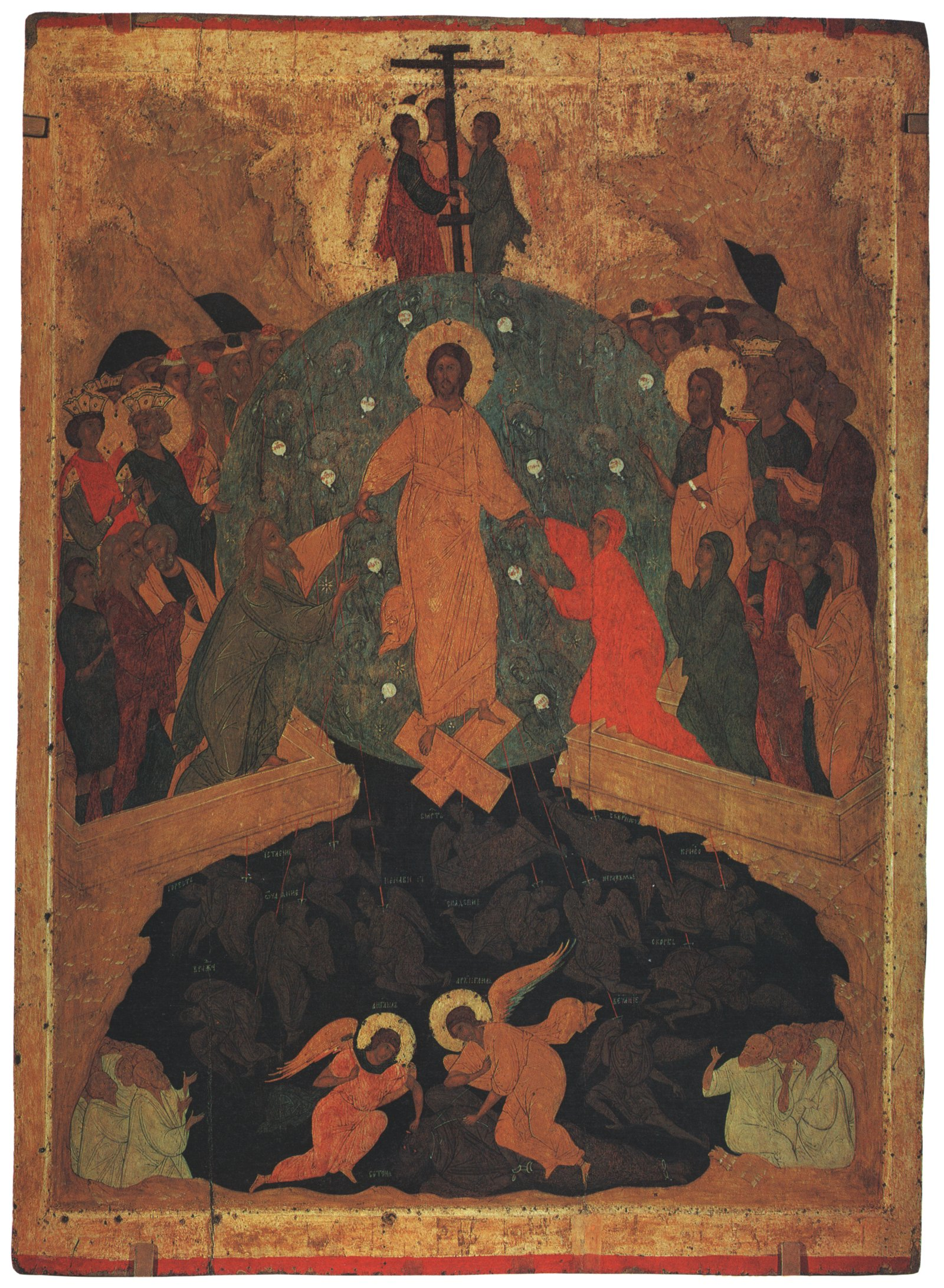 Descent into Hell, icon from the Ferapontov Monastery Tempera on wood, 312x105x4, State Russian Museum, Sankt Petersburg